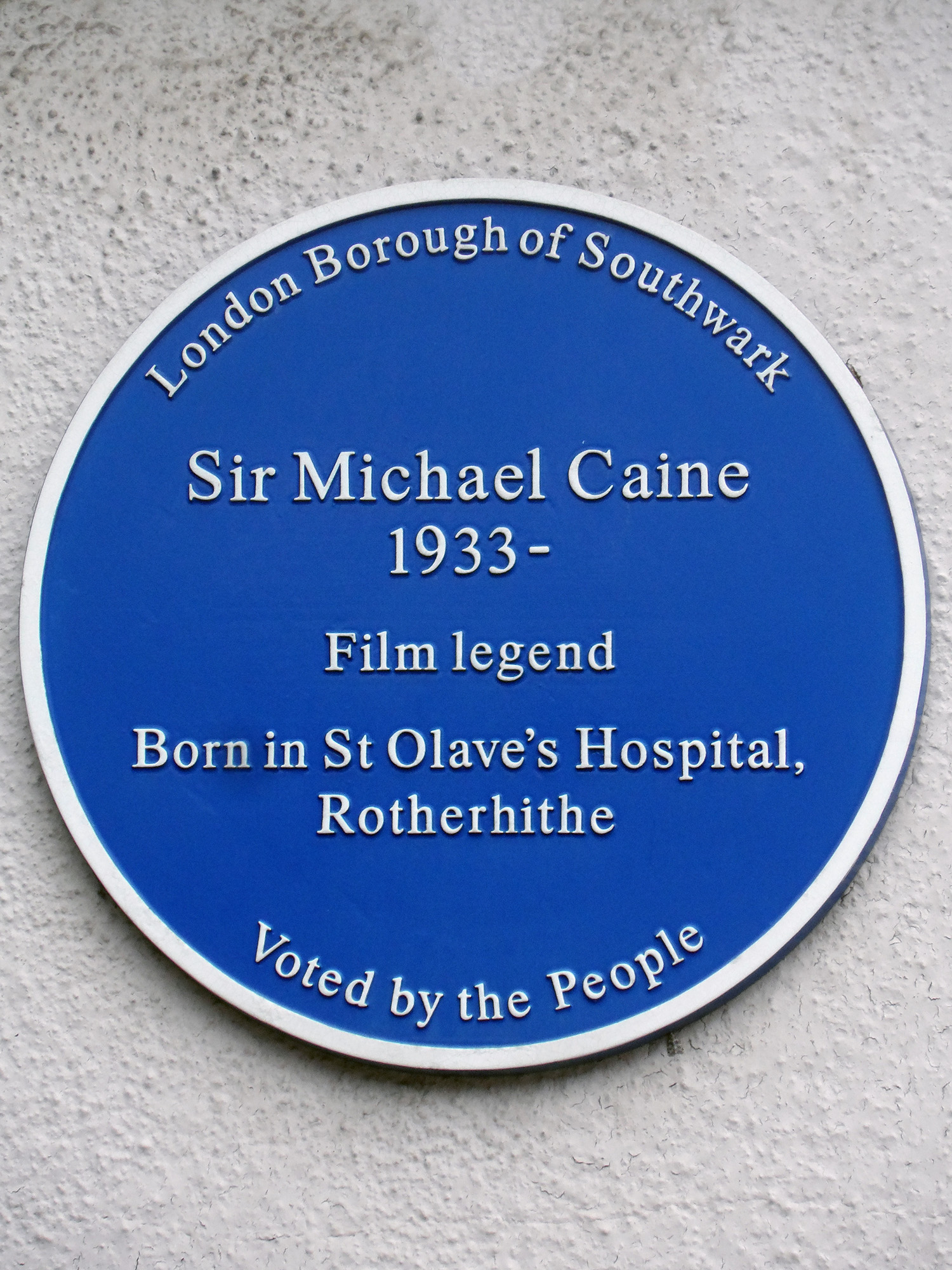 Blue plaque erected by London Borough of Southwark at Gate House, St Olave's Hospital, Lower Road London SE16 7BN